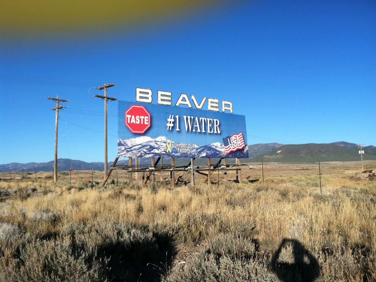 Sign welcoming visitors to the town of Beaver, Utah